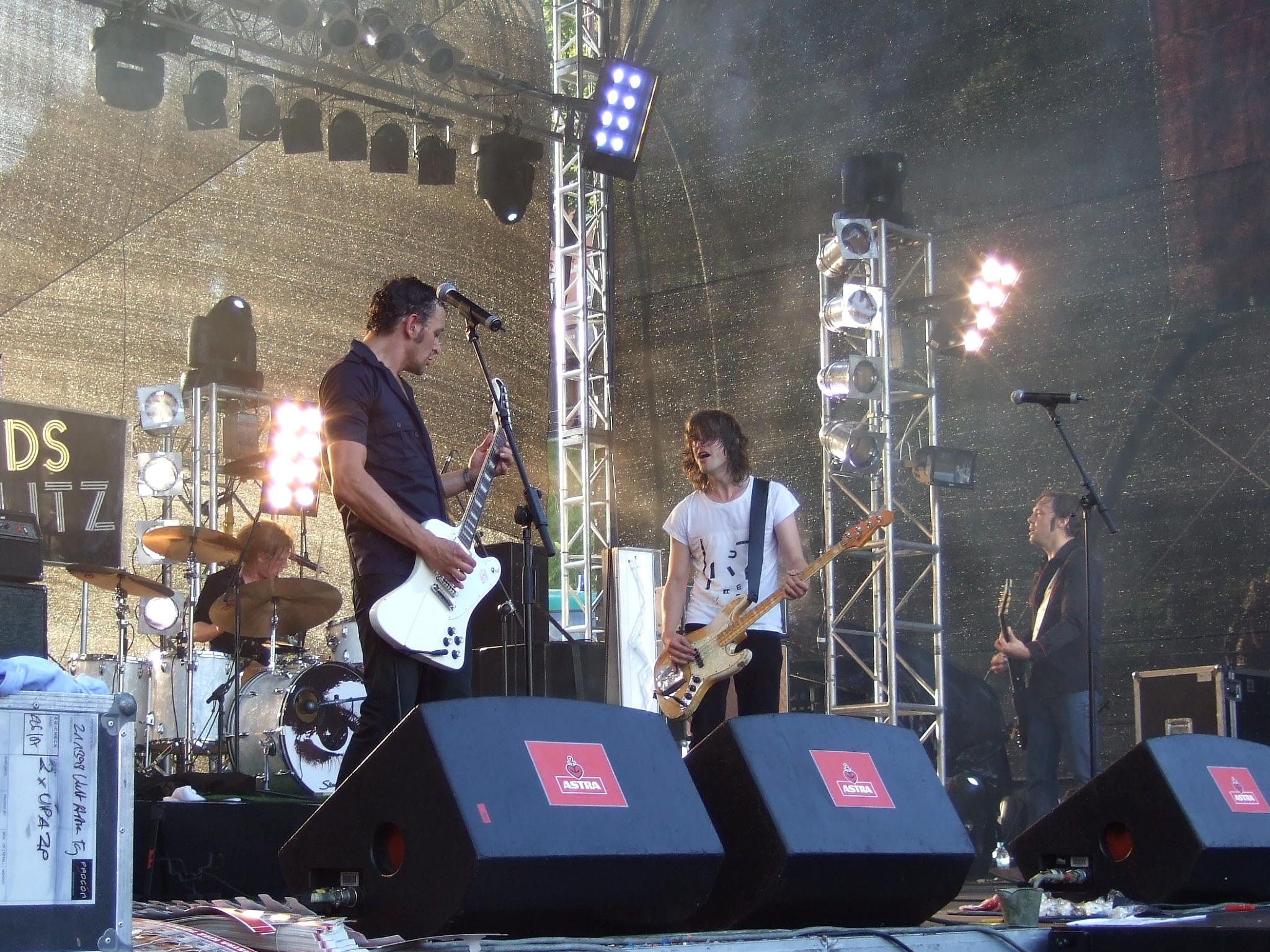 Gods Of Blitz performing at Weltastratag in Hamburg, 28.07.2007, photo taken by Kekslover 16:50, 29 July 2007 (UTC)